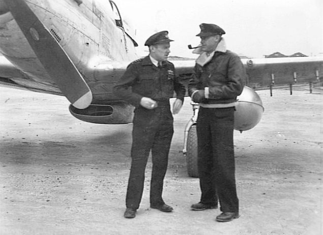 Iwakuni, Japan. When Wing Commander (Wg Cdr) Glen Cooper DFC, Elwood, Vic, Commanding Officer, No. 81 Fighter Wing RAAF (left), led in the first Mustang flight from No. 81 Fighter Wing to land, he was met by Wg Cdr J. R. Kinninmont DFC of Northbridge, NSW, commanding No. 381 Base Squadron RAAF at the airstrip.